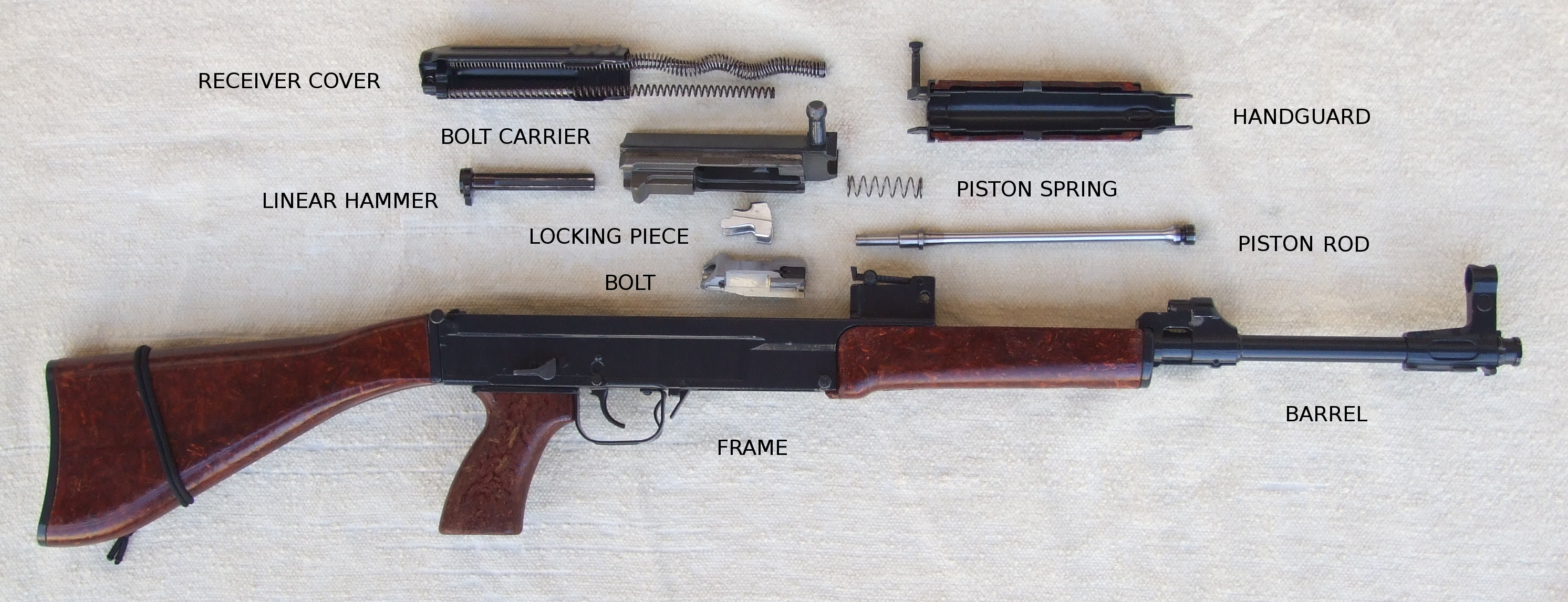 Czechoslovak assault rifle Sa vz. 58 P field stripped.